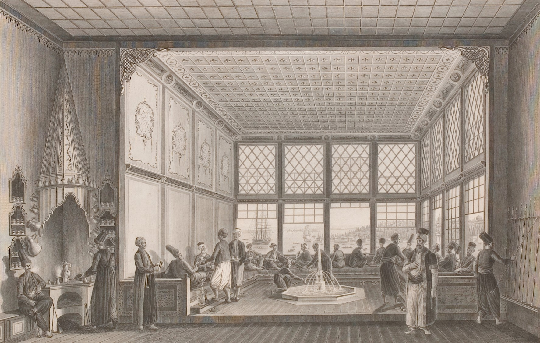 A depiction of a late eighteenth-century Ottoman coffeehouse in Istanbul.